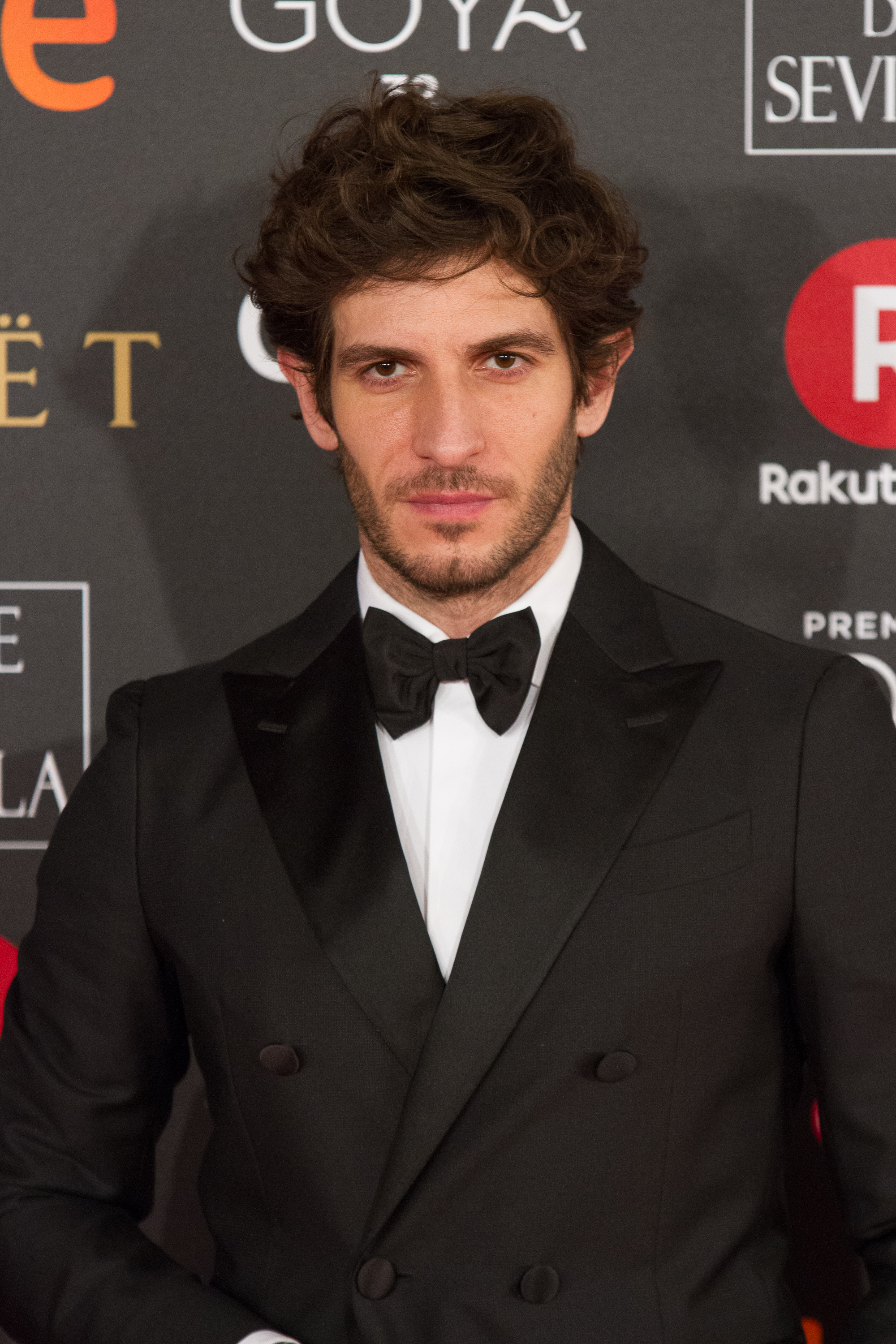 32nd Goya Awards, 2018.